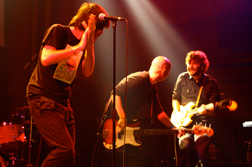 Spanish pop rock band Vetusta Morla